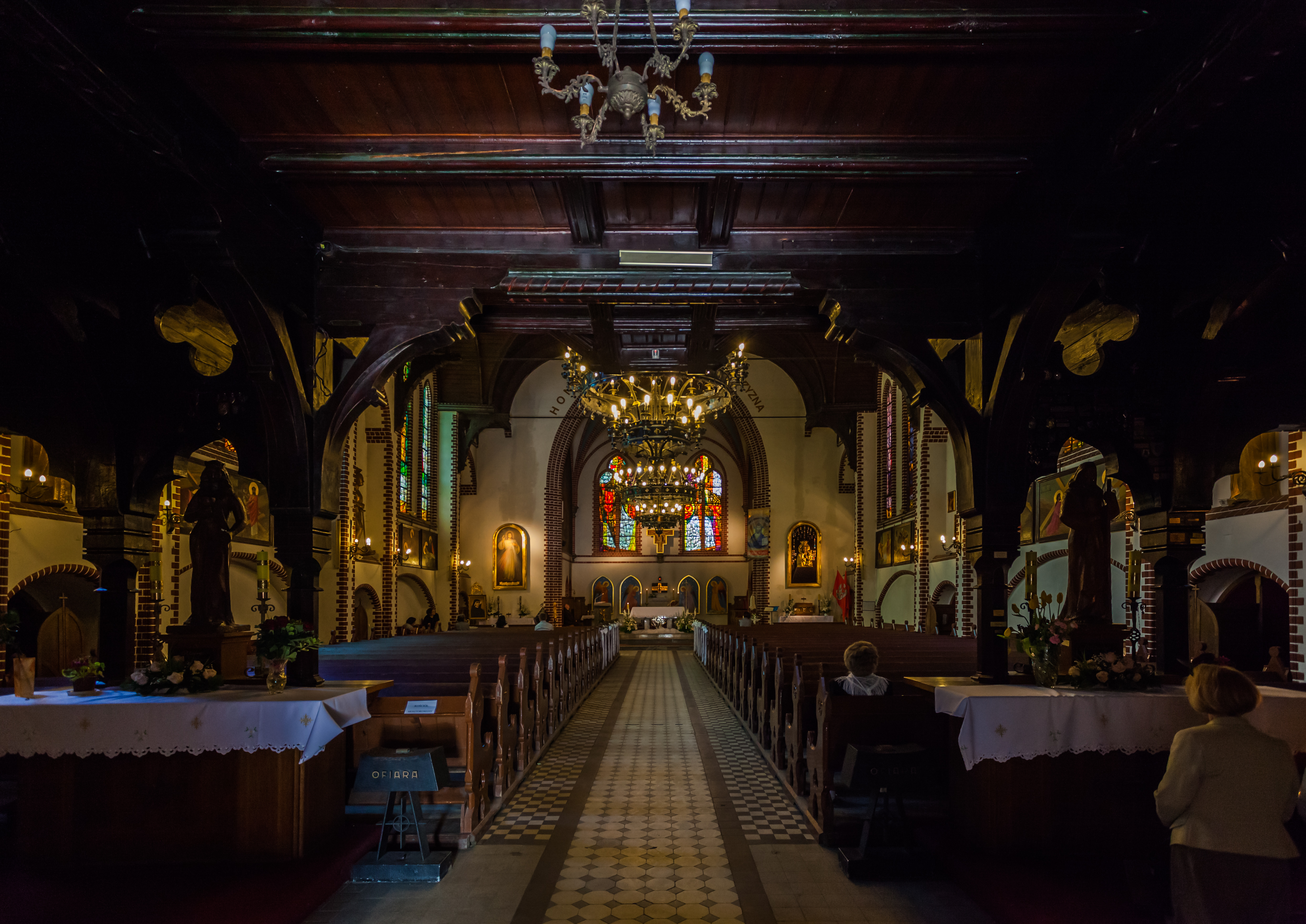 Saint George church, Sopot, Poland